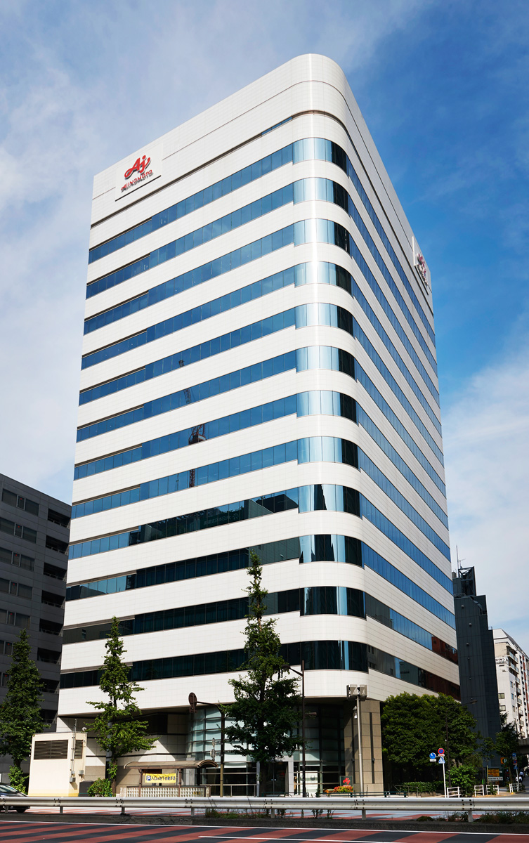 Ajinomoto Heaquarters Building with brandnew logo on the wall in 2018